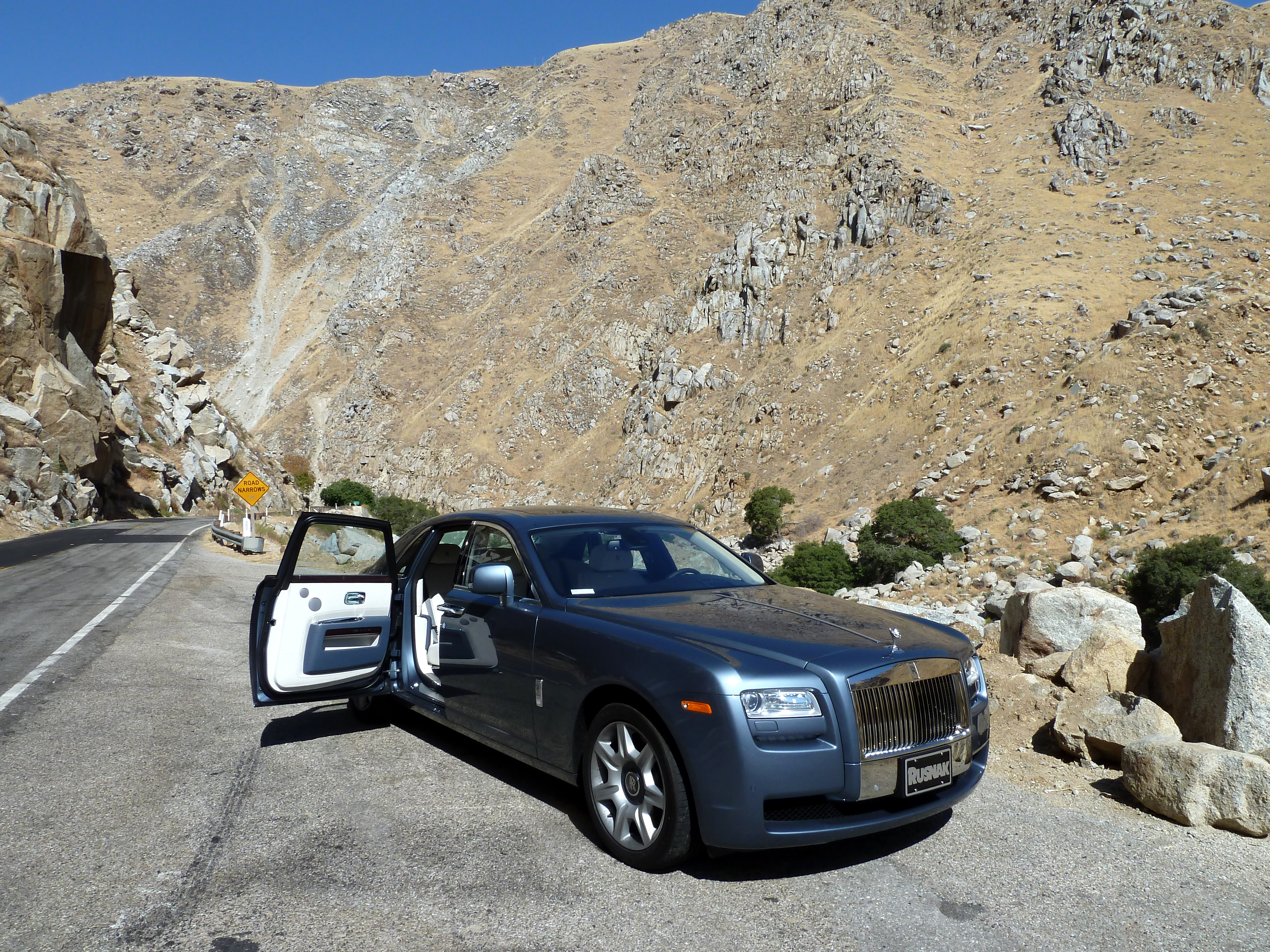 2011 Rolls-Royce Ghost, alongside Highway 178 and the Kern River Canyon near Bakersfield, California, USA. The rear suicide door is open.